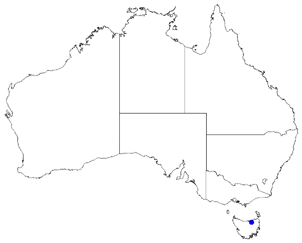 Boronia hemichiton occurrence data downloaded from Australasian Virtual Herbarium 10 April 2019 using This download included all the environmental overlay fields and ALA's data checking fields including "cultivated / escapee", "outside expert range for species", "latitude is negated", "coordinates are transposed", "taxon misidentified", "habitat incorrect for species", and "suspected outlier" (over 730 fields). Deleting occurrences for which any of the above were true, 46 specimens with coordinates were deleted. However this did not remove all obvious spatial outliers some of which were later removed by hand..